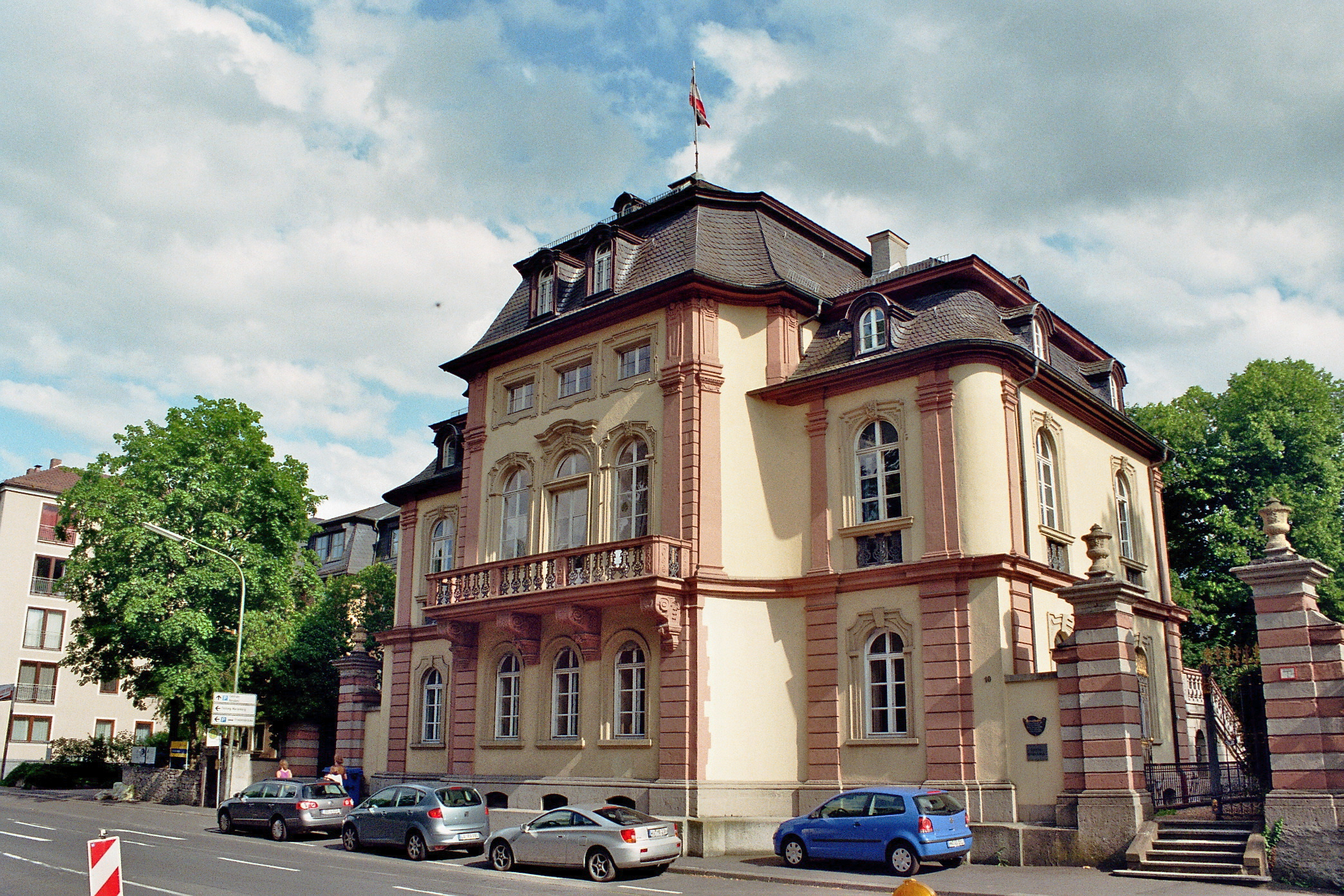 House of student fraternity "Corps Rhenania Würzburg" in Würzburg/Germany, street view